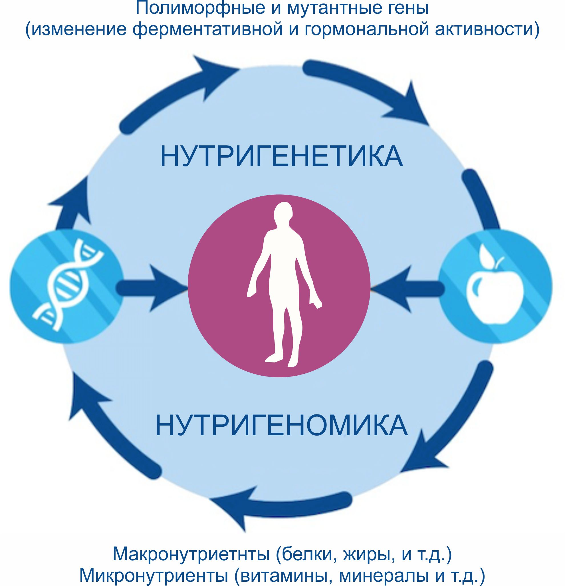 Nutigenetics and nutigenomics scheme